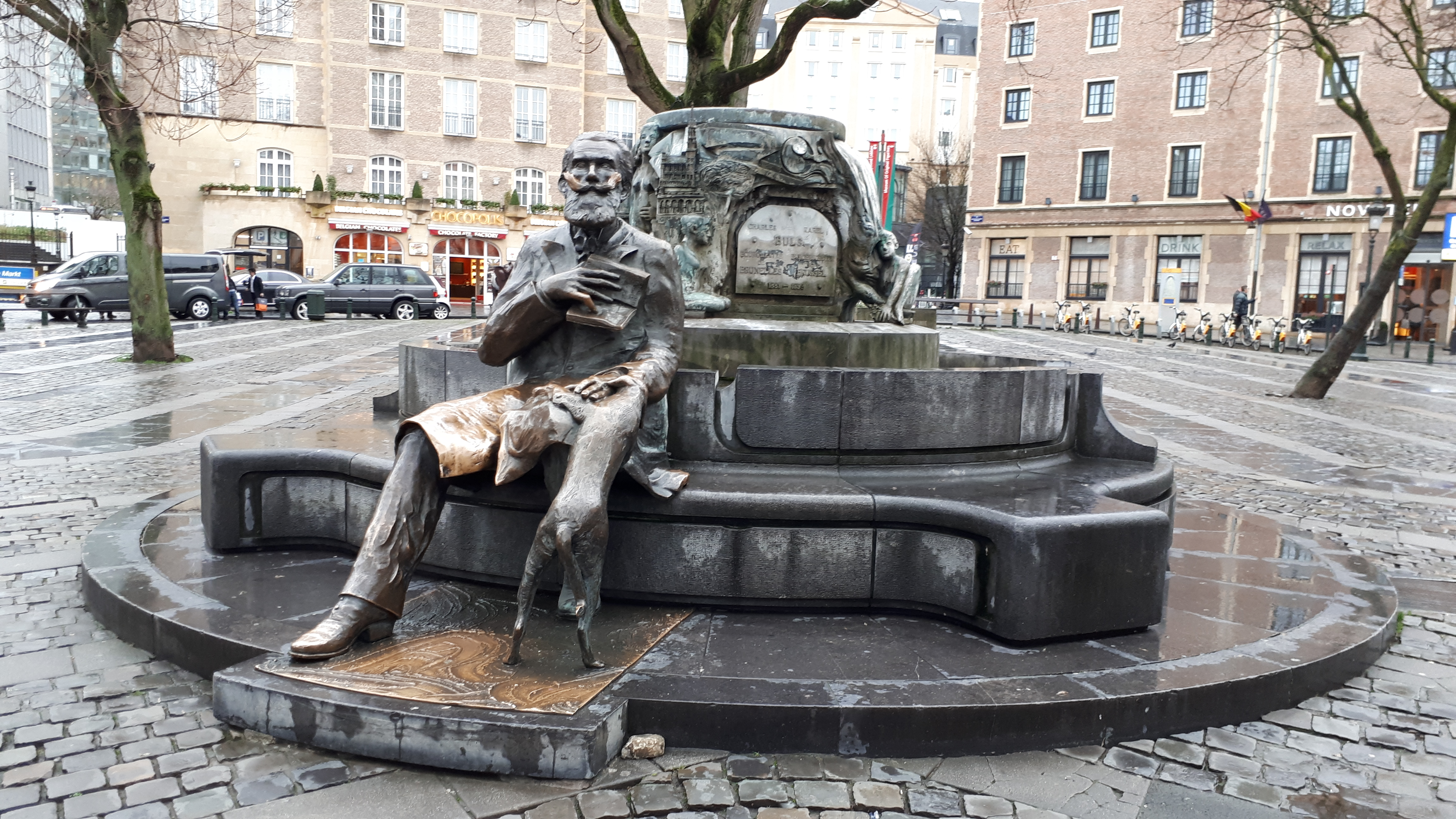 Fountain Charles Karel Buls